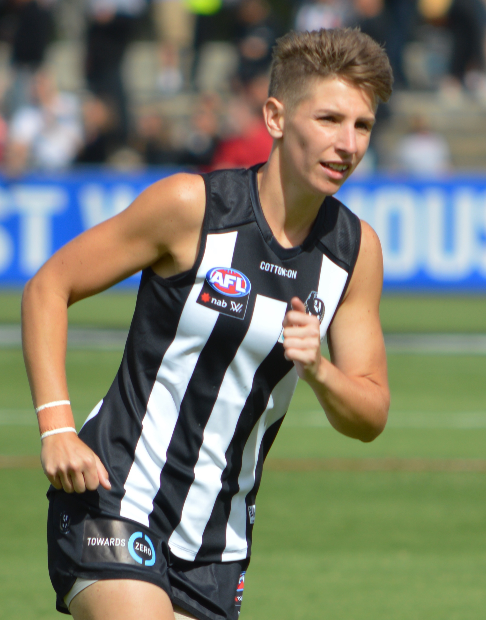 Emma Grant with Collingwood during a match against Melbourne at Victoria Park in round 2 of the 2019 AFL Women's season.